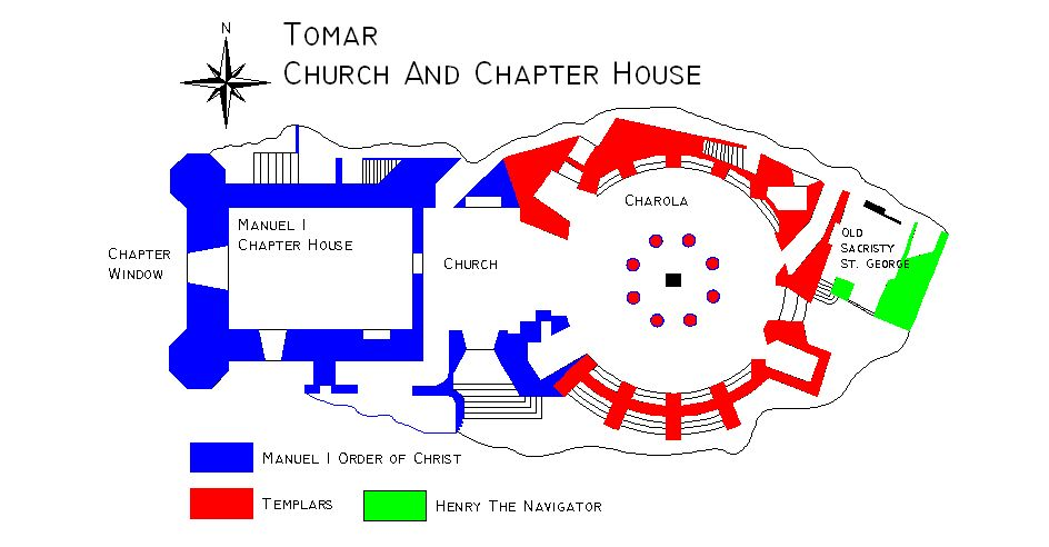 Drawing of Tomar Church Floor plan Drawing By Cristian Chirita Submitted By Cristian Chirita